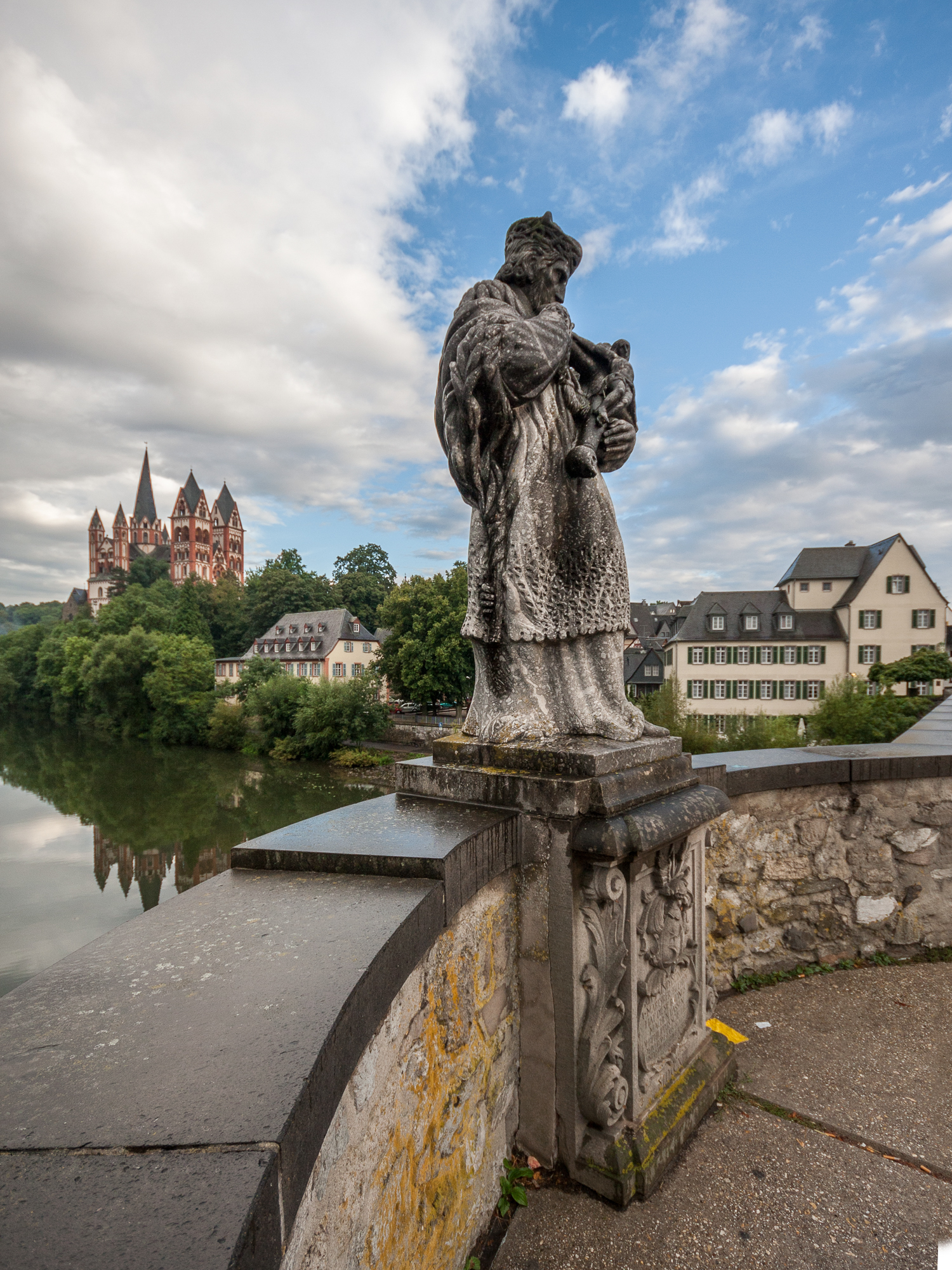 The Nepomuk-statue on the old Lahn-bridge. In the background the cathedral St. Georg and Nikolaus This is a picture of the hessian Kulturdenkmal (cultural monument) with the ID 53076